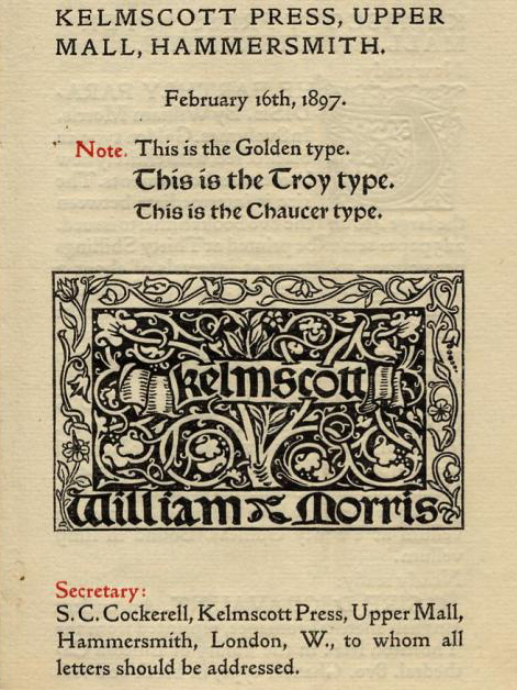 Page with typeface samples from the Kelmscott Press, 1897, showing samples of Chaucer, Troy, and Golden Type designed by William Morris